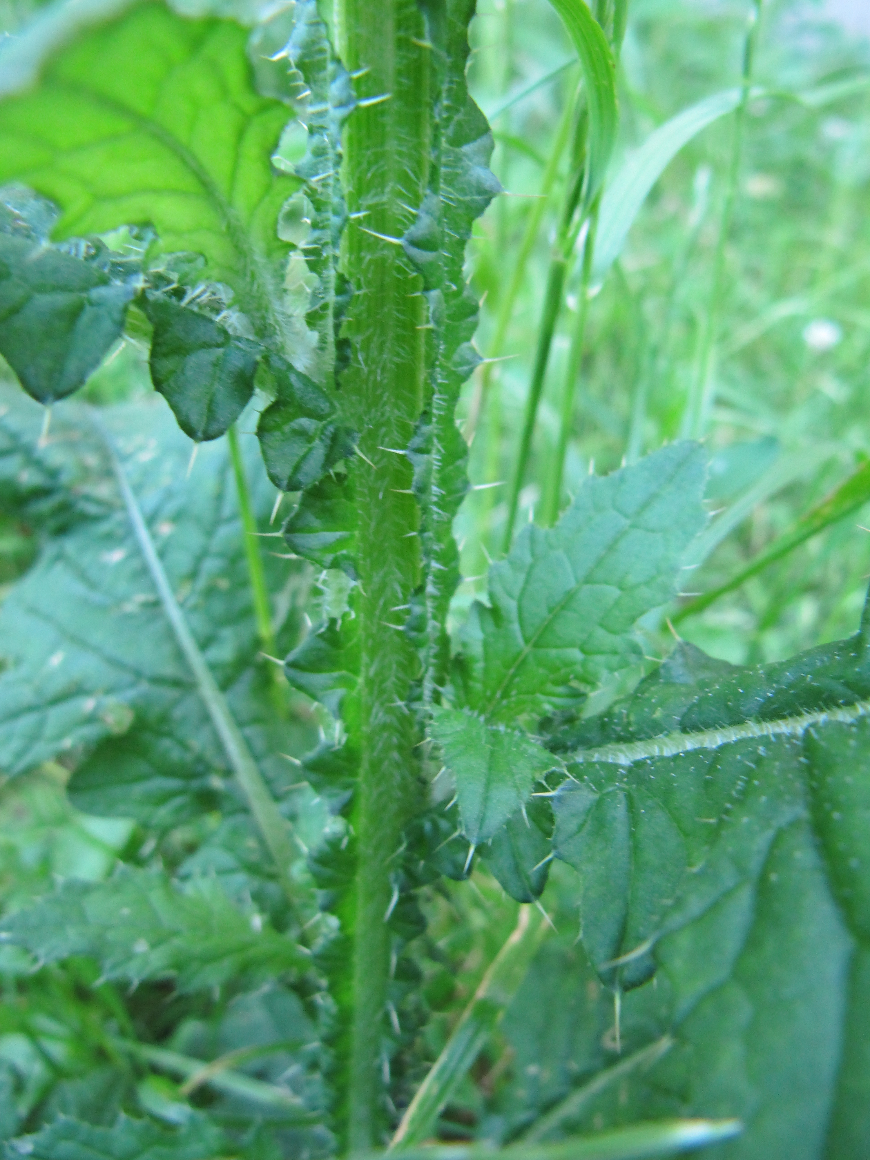 Winged stalk in Cirsium